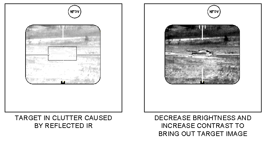 Infrared clutter, showing how you can bring out the target image with adjusting the optics